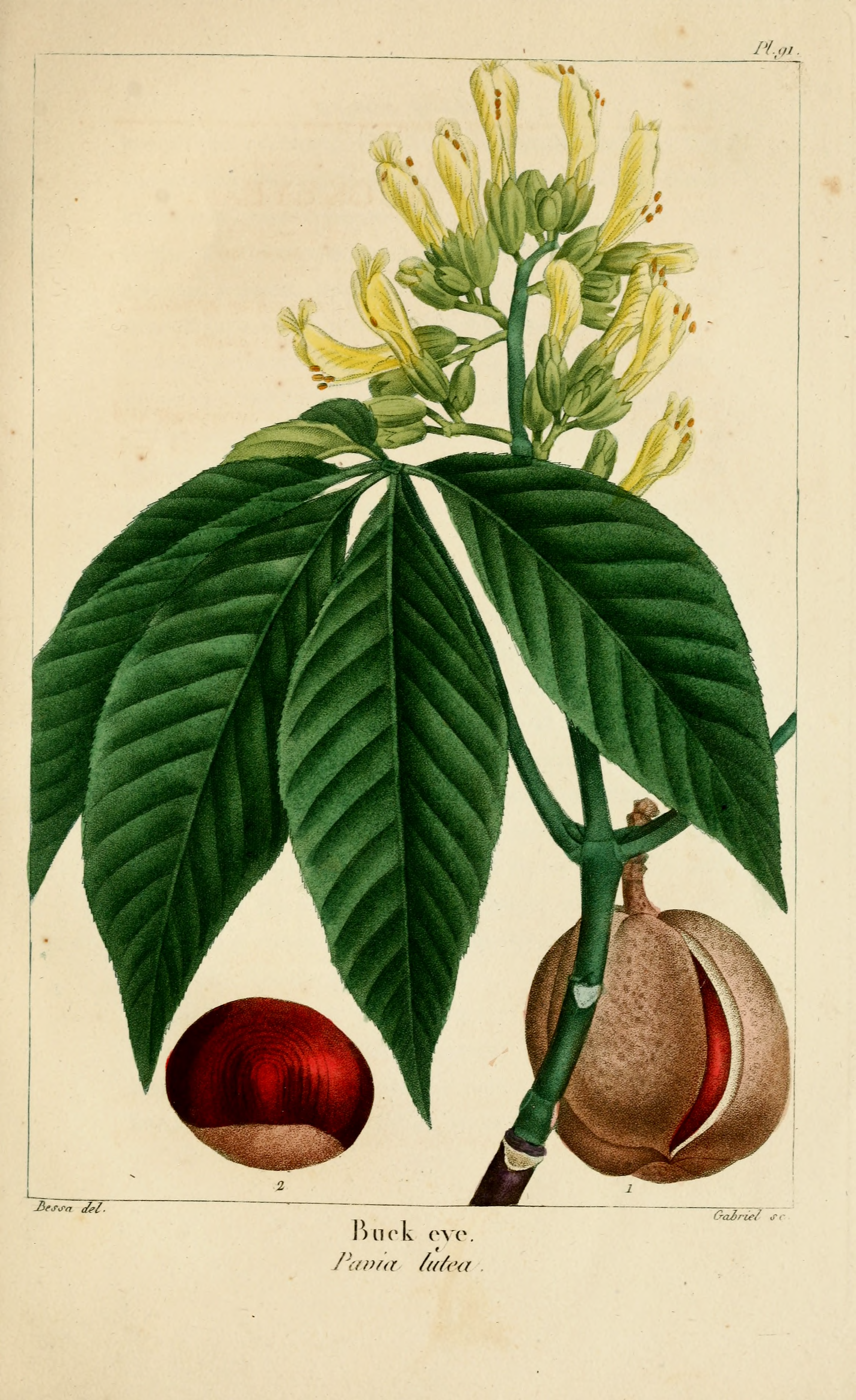 Plate from The North American Sylva